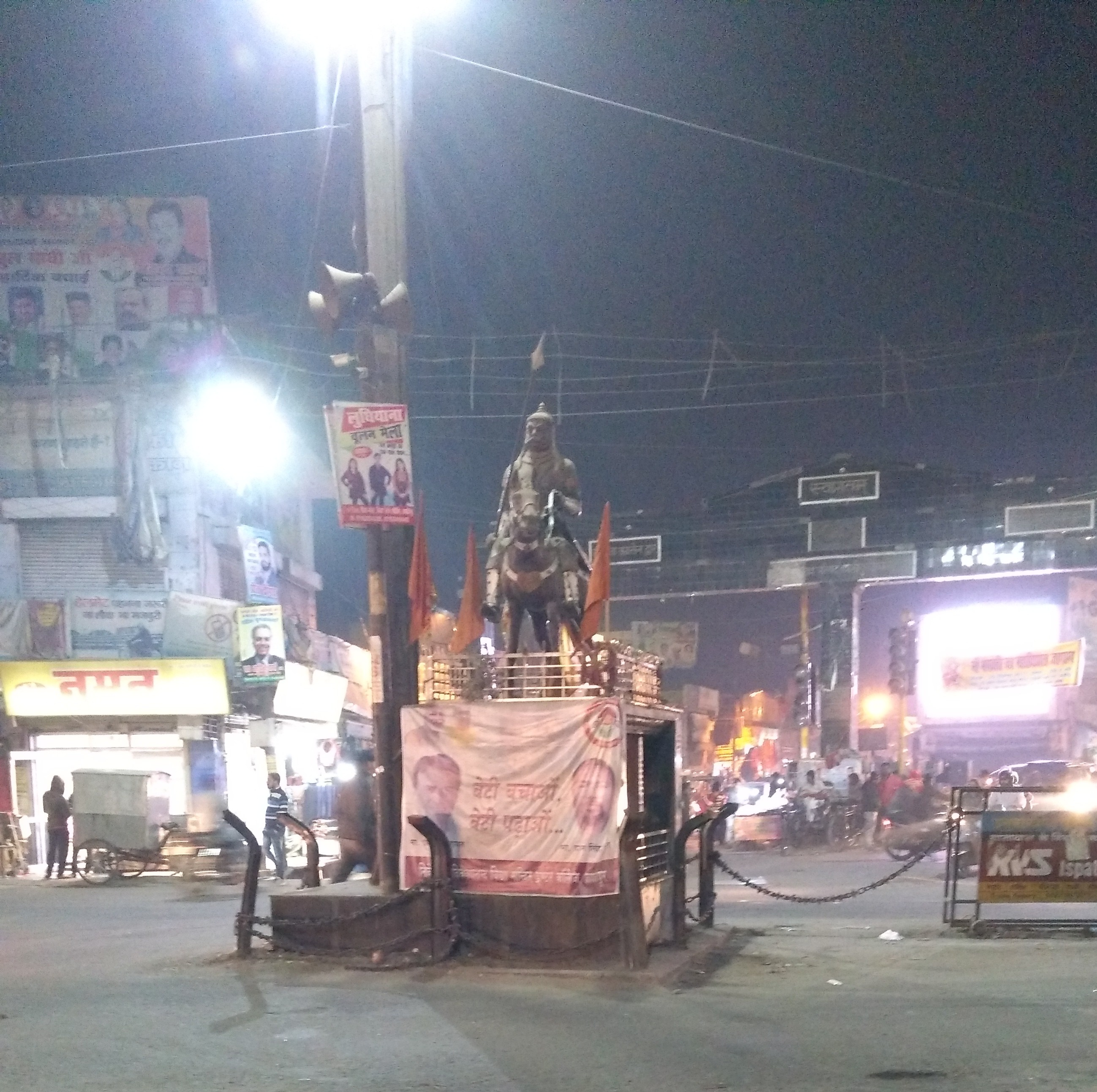 Maharana Pratap chowk, Kashipur, Uttarakhand also known as Chhatri chowk is the main crossroad of Kashipur town.